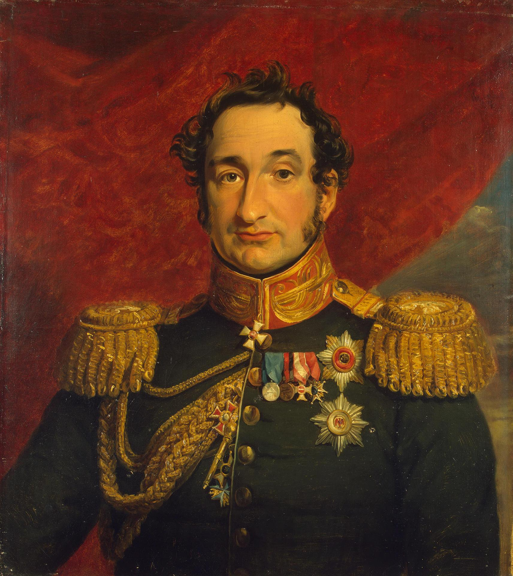 Vasily Sergeevich Troubetskoy (24.03.1776 – 10.02.1841) russian general